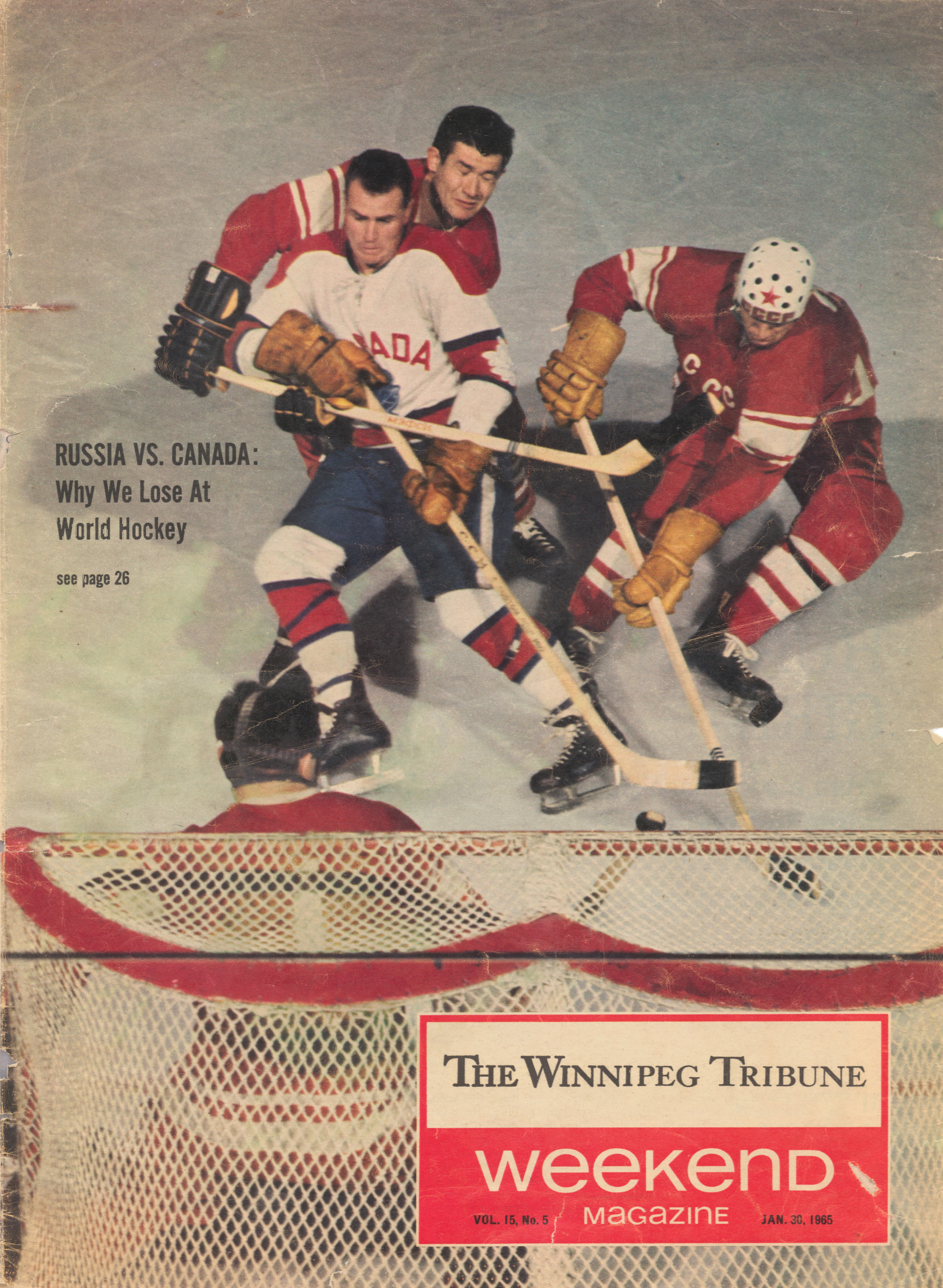 A cover of the (now-defunct) Winnipeg Tribune newspaper, showing a hockey game between Canada and Soviet Russia in 1965.